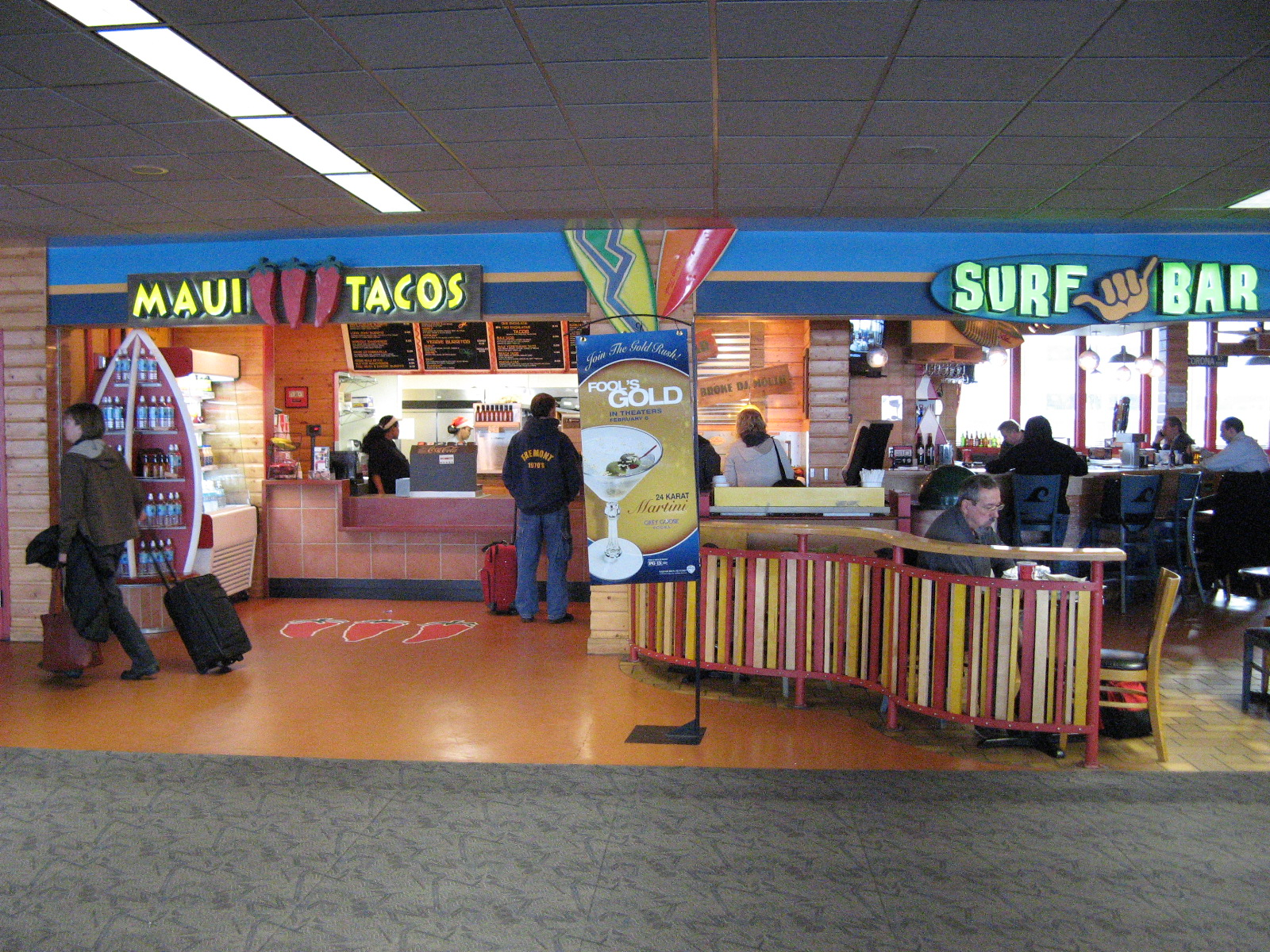 Maui Tacos is a fast food franchise restaurant that serves Mexican food with a twist of Hawaiian flavor. The first Maui Tacos was opened by Mark Ellman in 1993 in Nāpili, Maui, Hawaiʻi. Ellman opened six more locations in Hawaiʻi before opening his first store in the mainland in 1998. Maui Tacos now has 21 restaurants in 11 states (including the District of Columbia) and recently opened its sixth Maui location, in Kalama Village, Kihei.